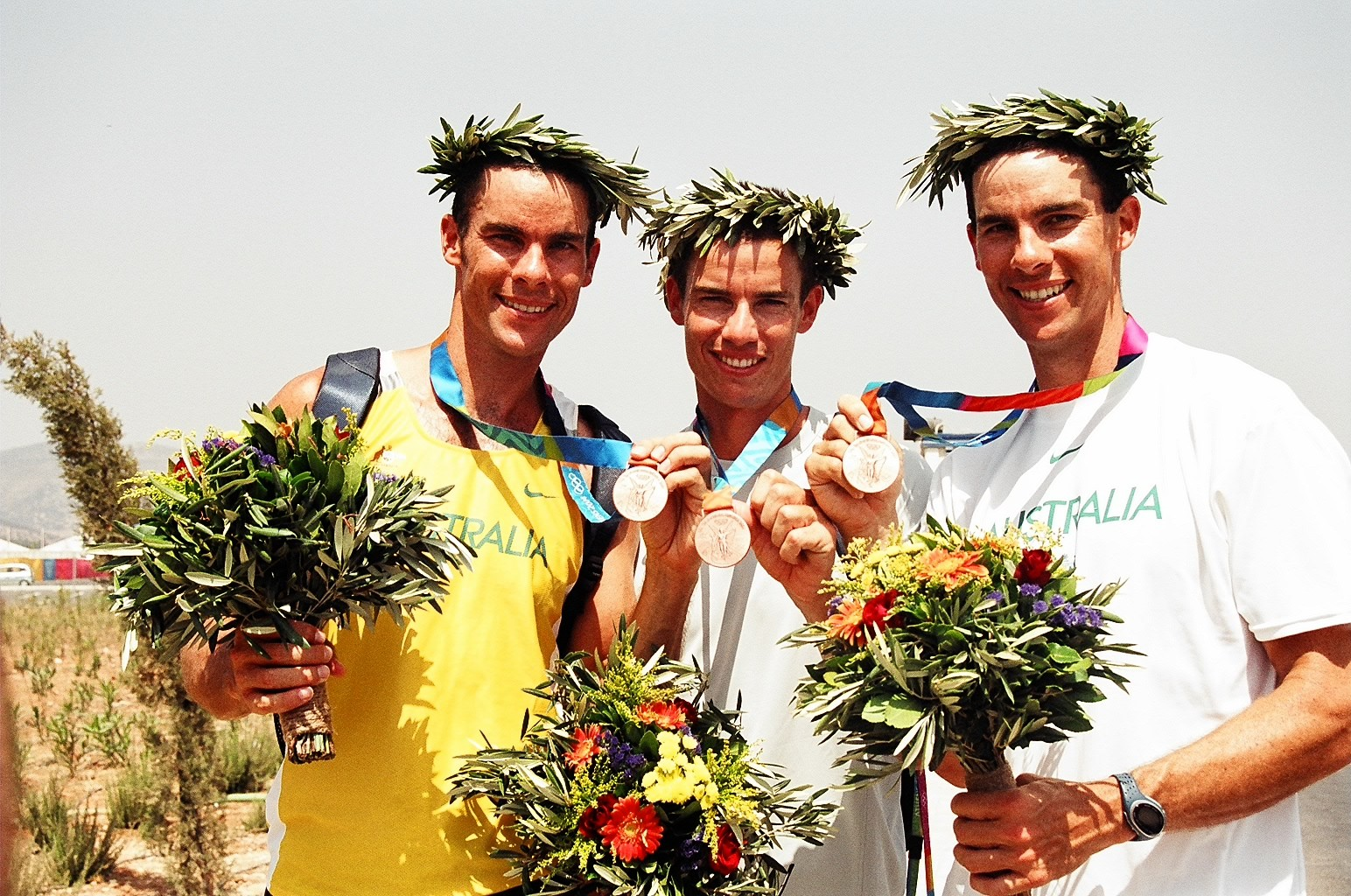 First time in Olympic history three brothers compete in the same team and medal together in the Athens Olympic Games